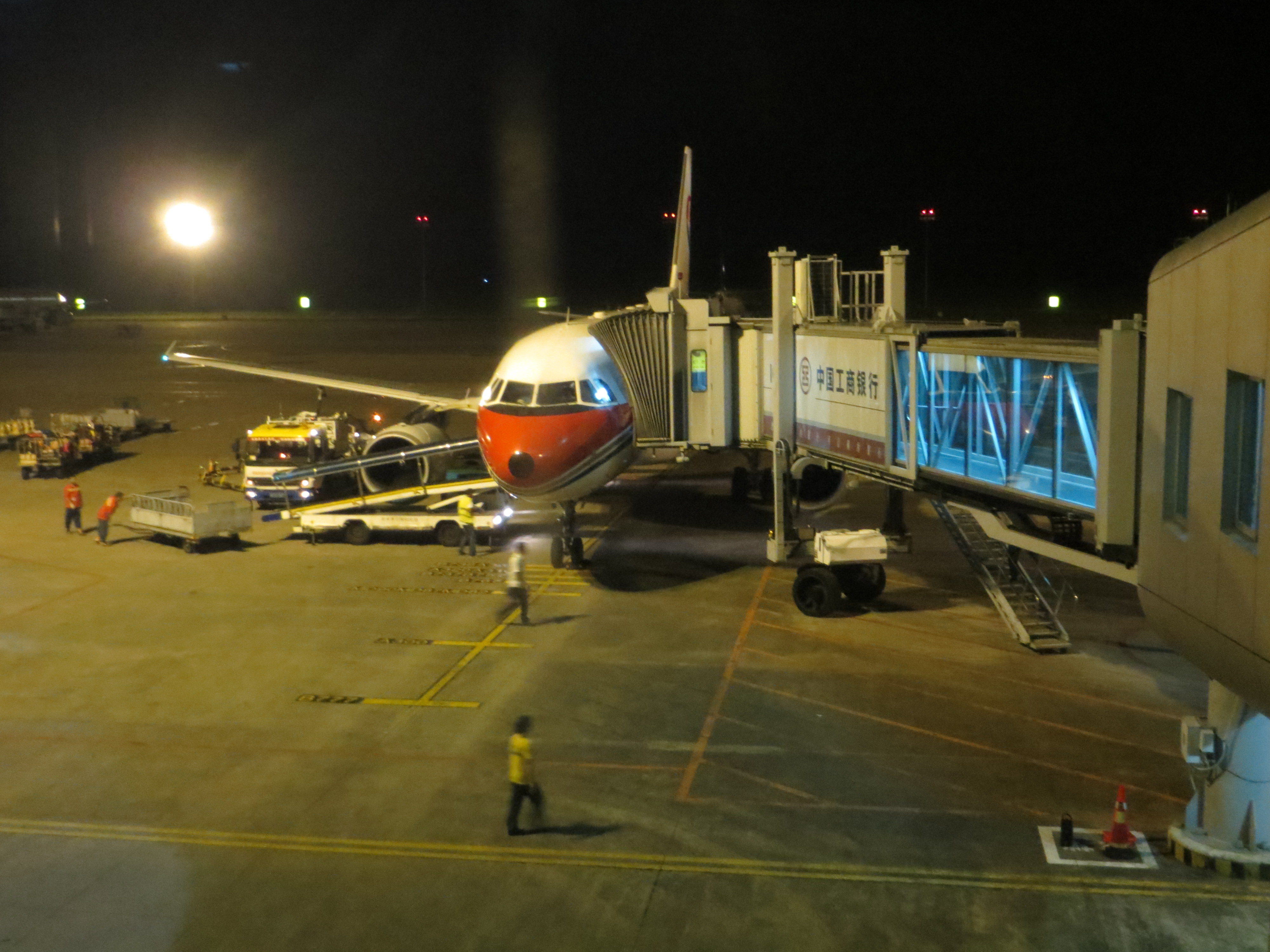 A China Eastern A319 at Guilin Airport, China.